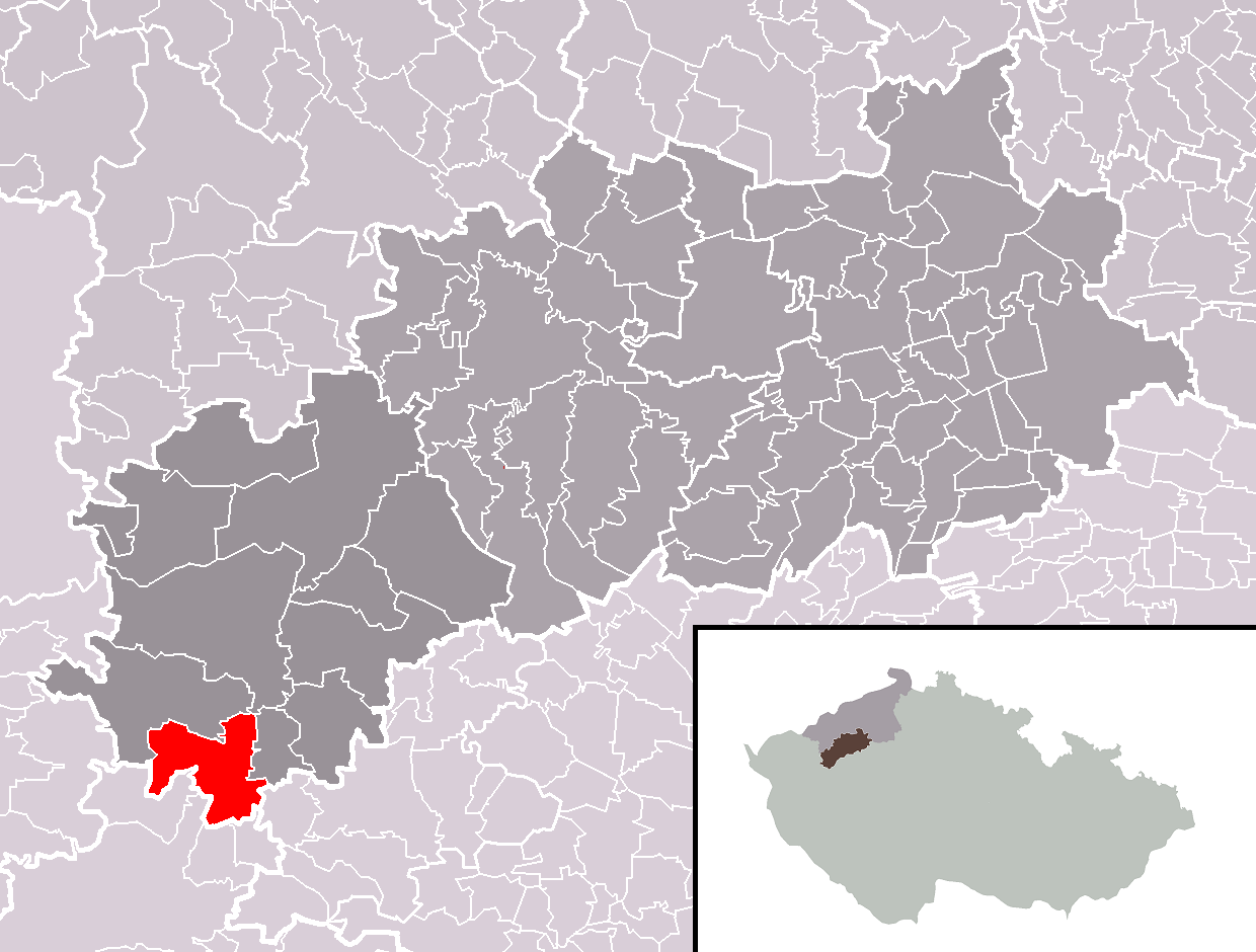 Location of Blatno municipality within Louny District and administrative area of Podbořany as a Municipality with Extended Competence.